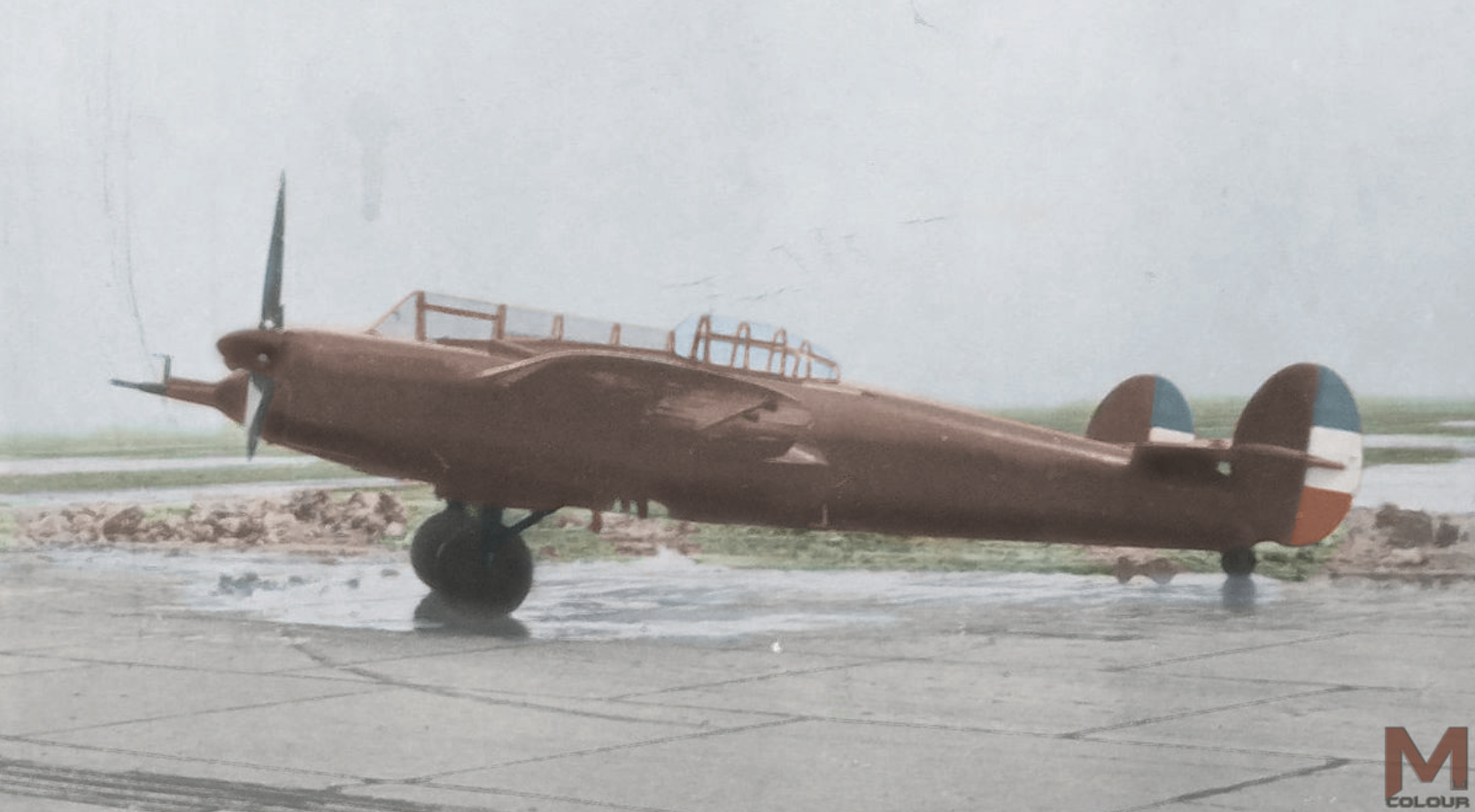 Colored P-313 RYAF